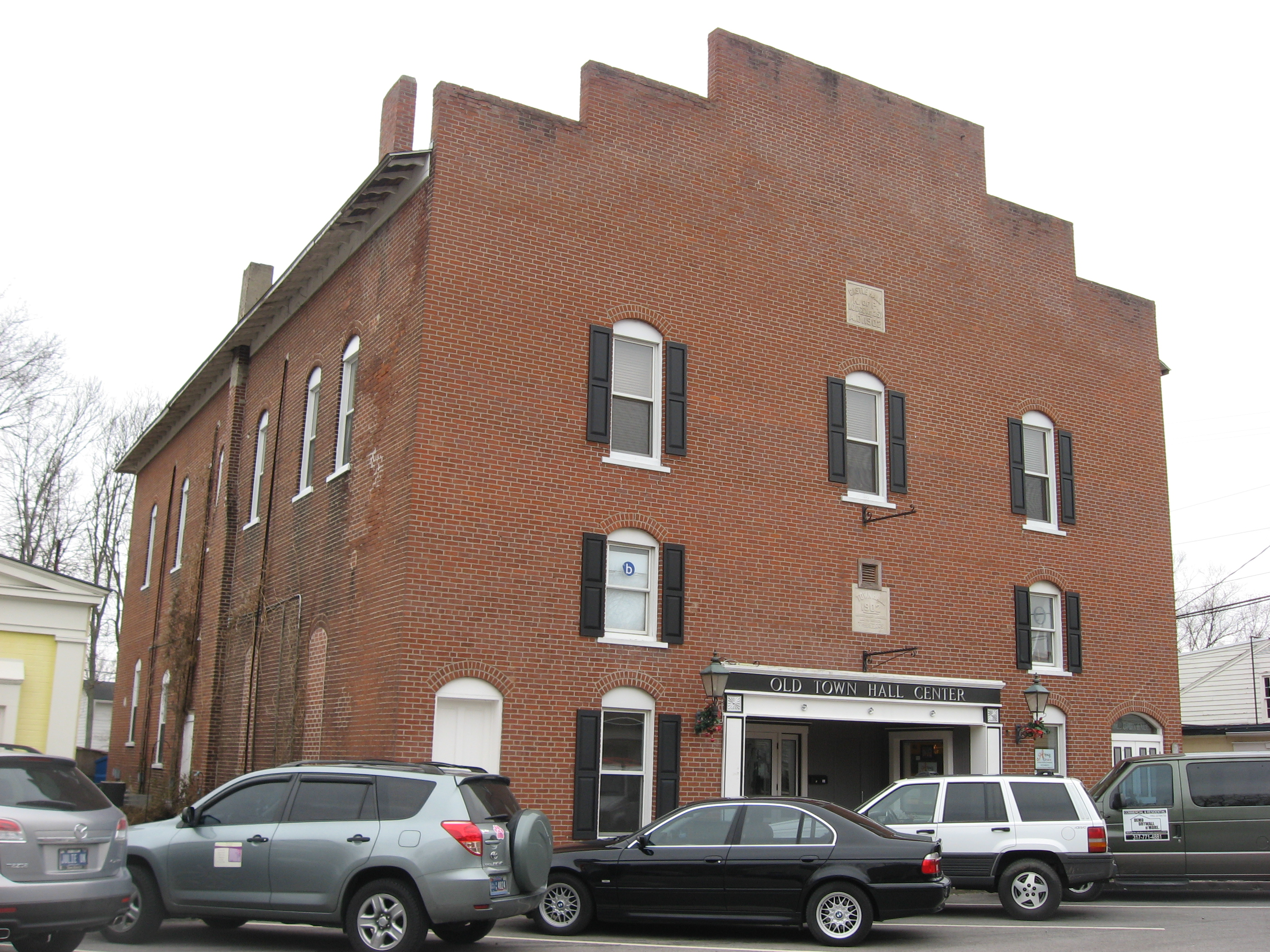 Front and eastern side of the old Zionsville Town Hall (also known as "Castle Hall"), located at 65 E. Cedar Street in downtown Zionsville, Indiana, United States. Built in 1902, it is listed on the National Register of Historic Places.